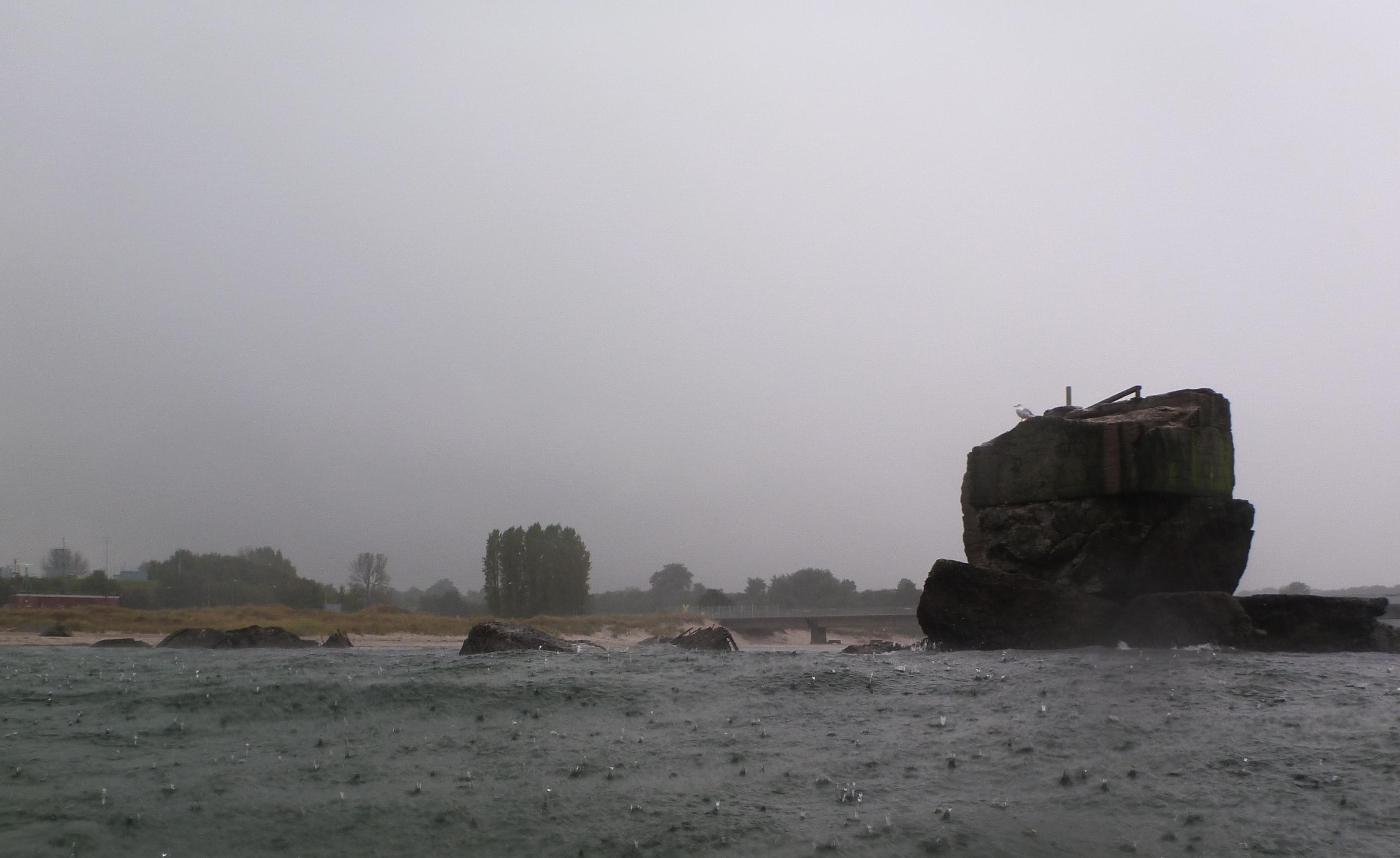 Parts of the destroyed pier of Torpedoversuchsanstalt Surendorf, in the background buildings of WTD71